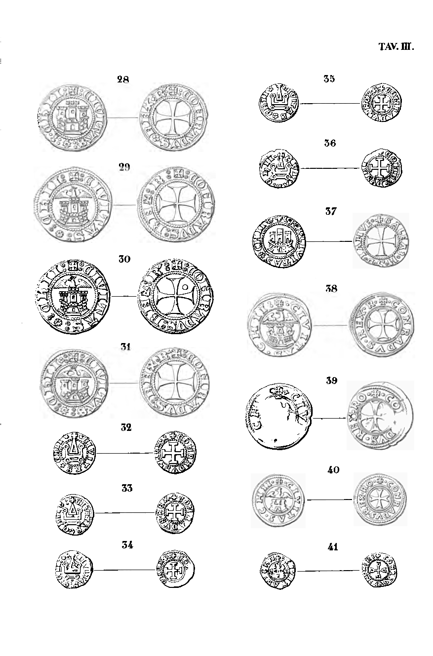 Table III of La zecca di Scio (p. 83)